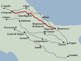 Centurelle-Montesecco sheep-track